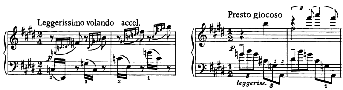 fragment of the development section